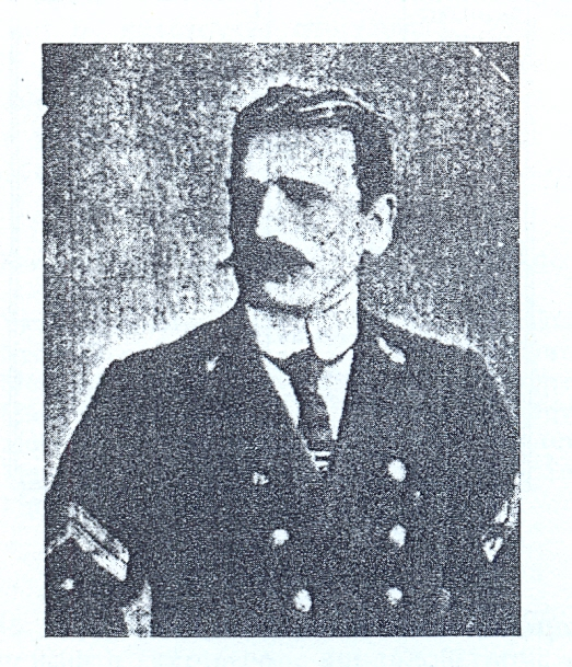 Old Hellenic Navy uniform